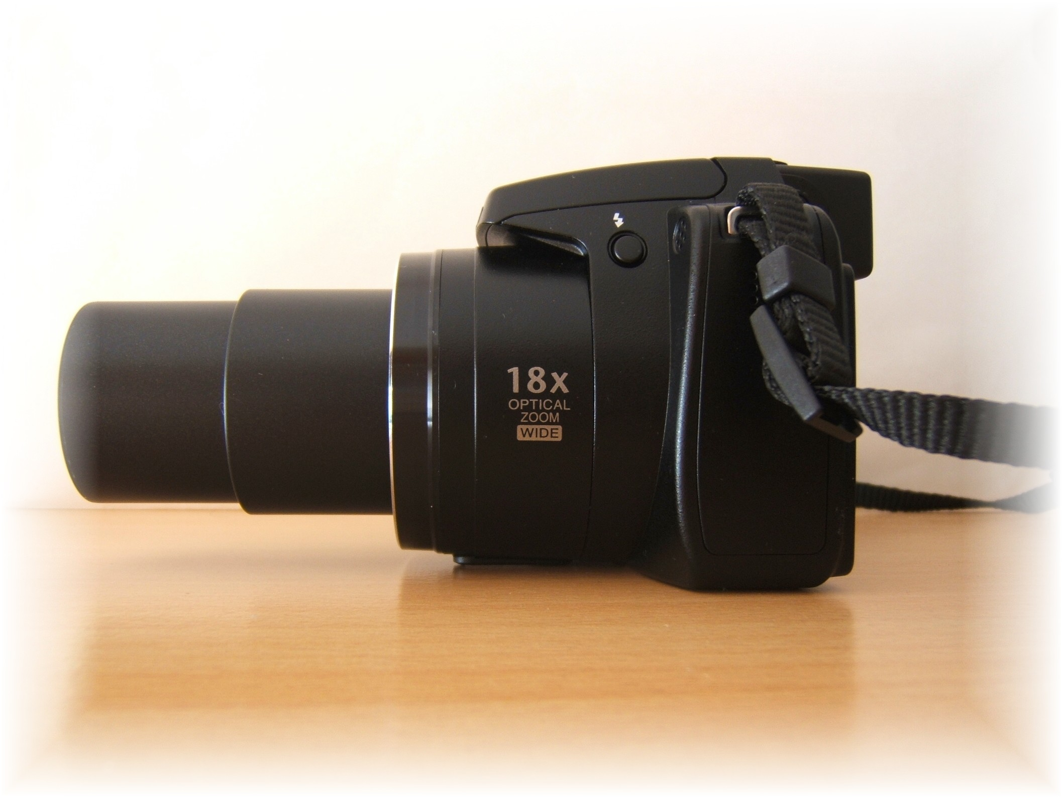 Nikon Coolpix P80 leftside, zoom open